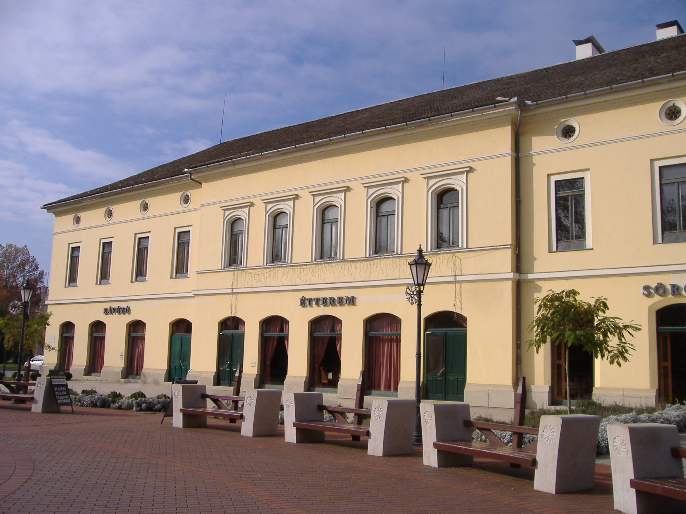 The side view of the Hotel Korona in Makó, Hungary.